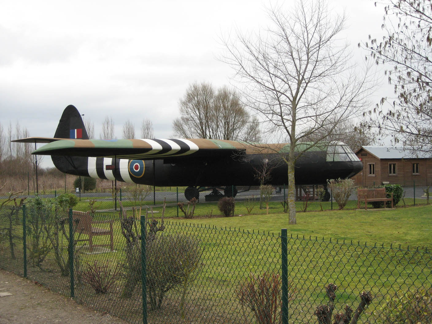 Airspeed Horsa, World War II glider. Taken at the Pegasus Bridge museum, Bénouville, France, February 2008.